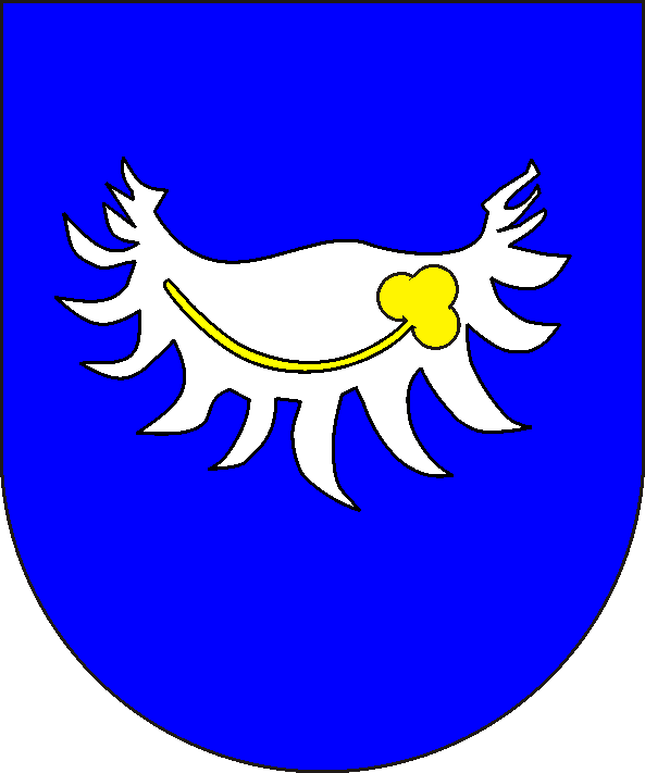 coats of arms of the county of Üsenberg